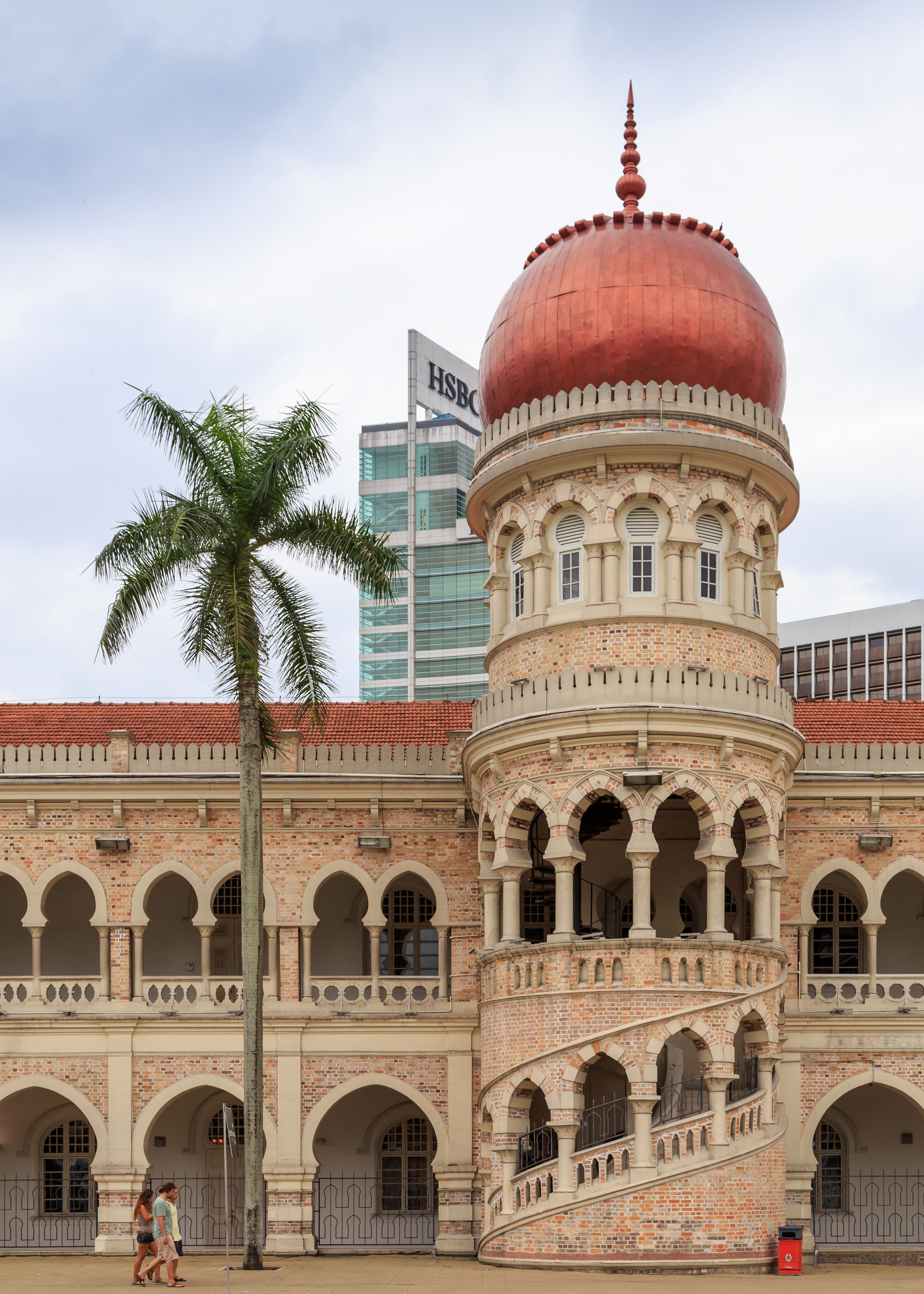 Kuala Lumpur, Malaysia: A stair tower of the Sultan Abdul Samad Building.